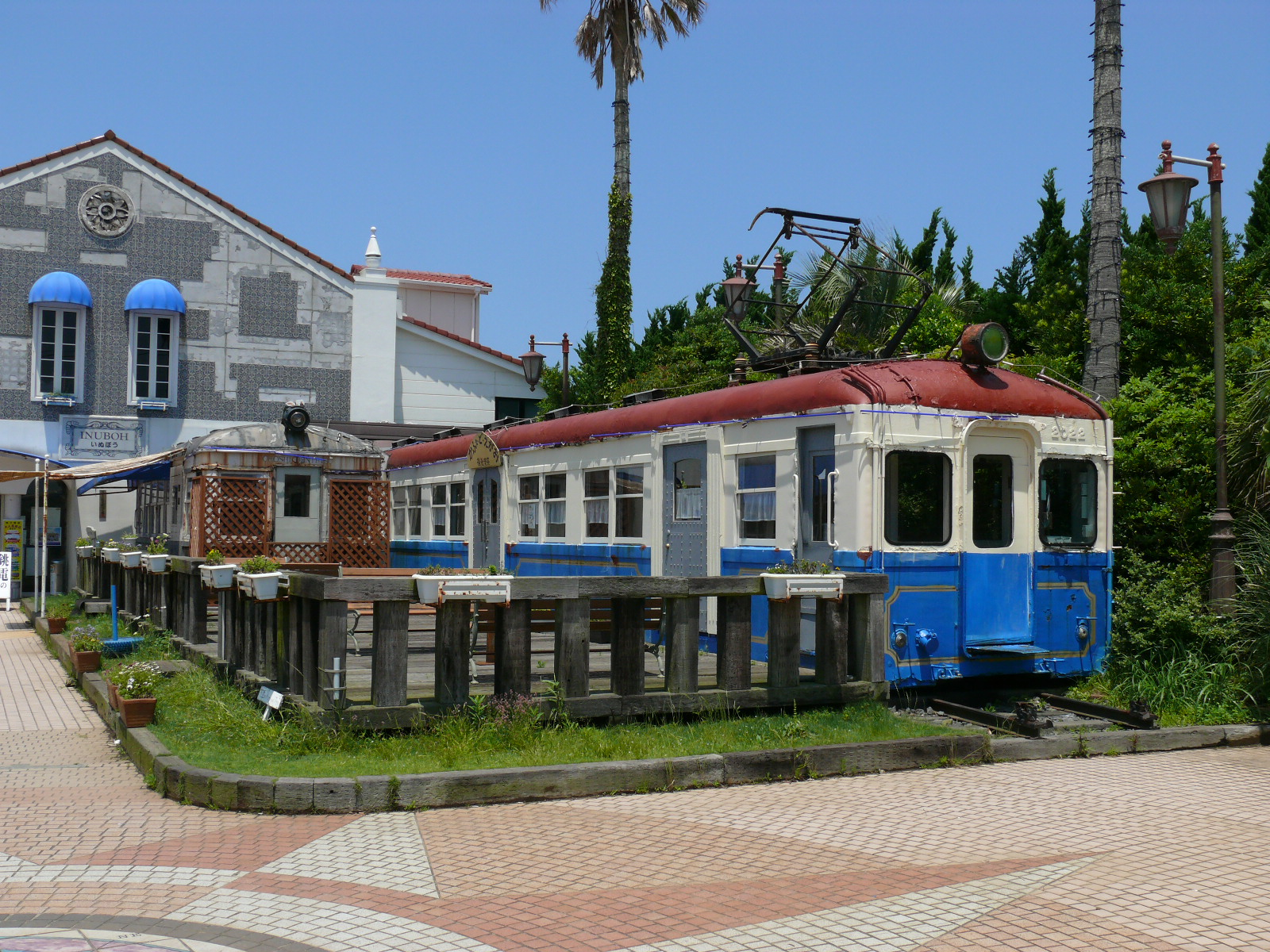 Former Sagami Railway 2000 series EMU car (on right) used as a restaurant in front of Inuboh Station on the Choshi Electric Railway. The sectioned car on the left is former Choshi Electric Railway DeHa 501.